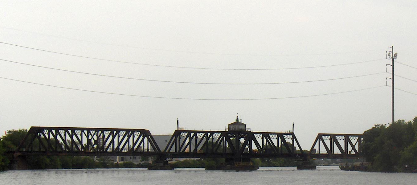 The Baltimore and Ohio Railroad Bridge, built in the late 19th or early 20th century as a two track, swing bridge across the Schuylkill River in the Grays Ferry neighborhood in Philadelphia, Pennsylvania. Now a CSX Philadelphia Subdivision bridge. View of the bridge looking downstream.